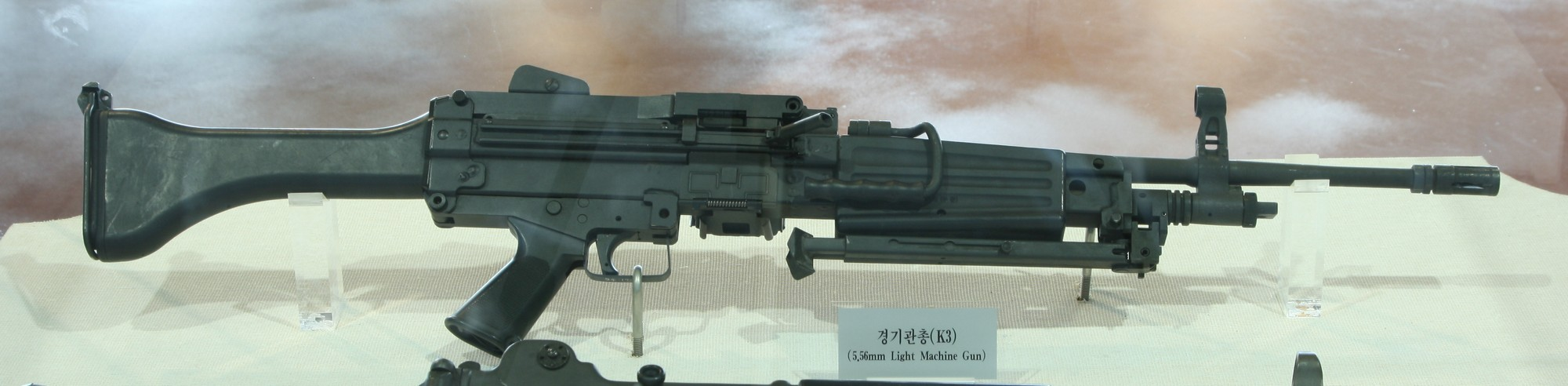 Daewoo K3 machine gun at the War Memorial of Korea